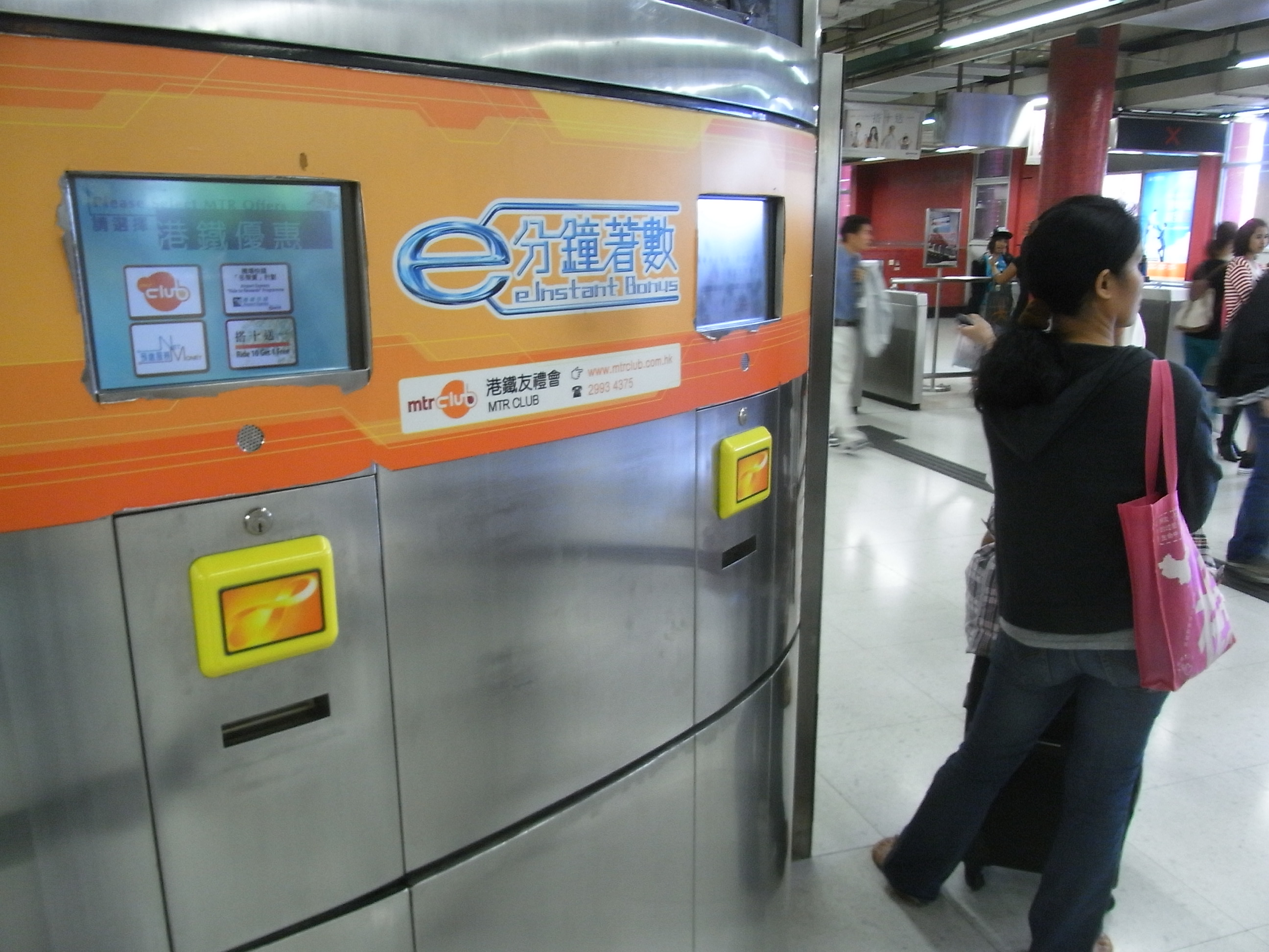 荃灣站, Tsuen Wan MTR Station in December 2012